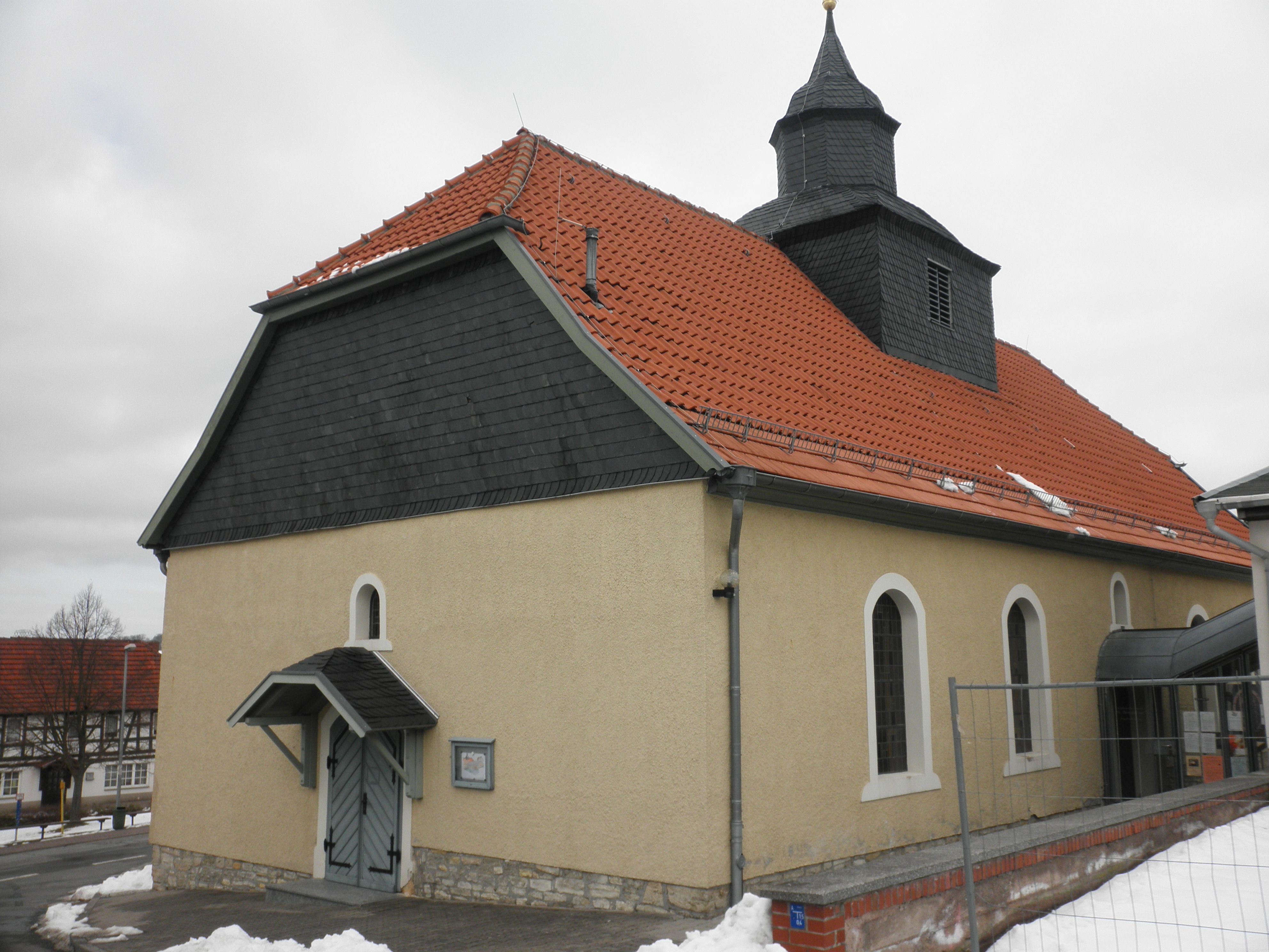 Catholic Bonifatius Church in Friedrichslohra (Großlohra) in Thuringia